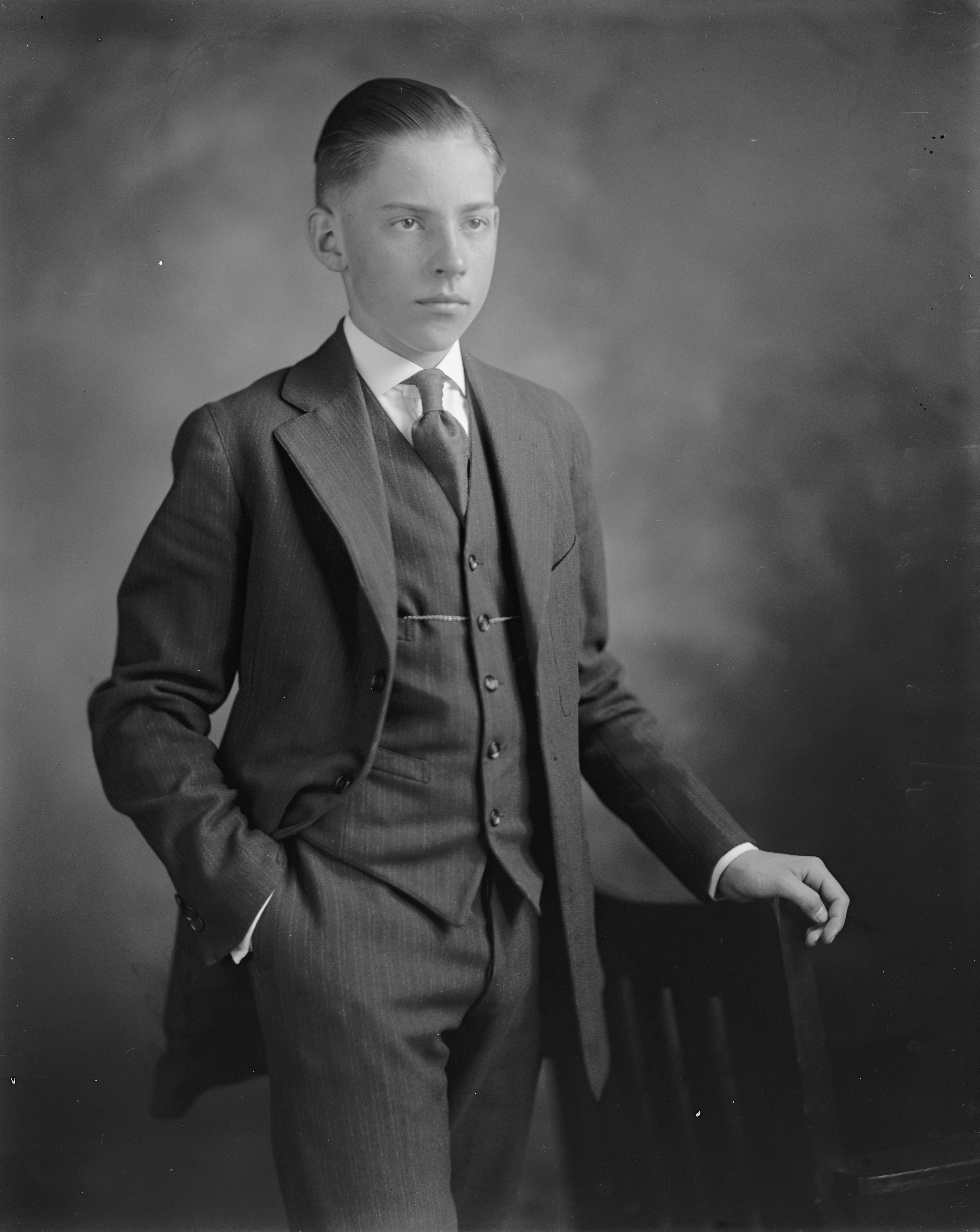 Title: COOLIDGE, JOHN Abstract/medium: 1 negative : glass ; 8 x 10 in. or smaller